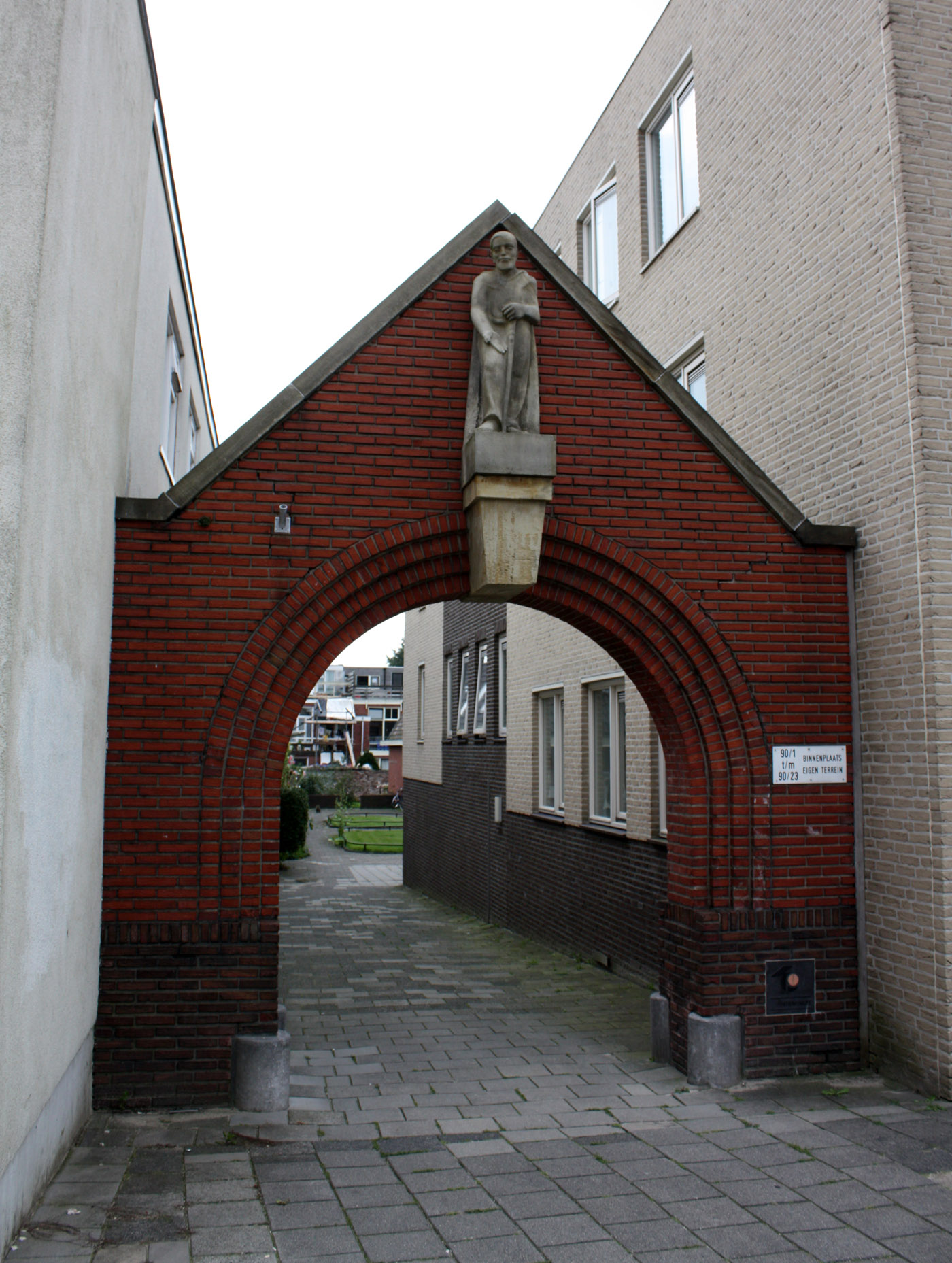 "The old man" by Willem Valk in Groningen, the Netherlands